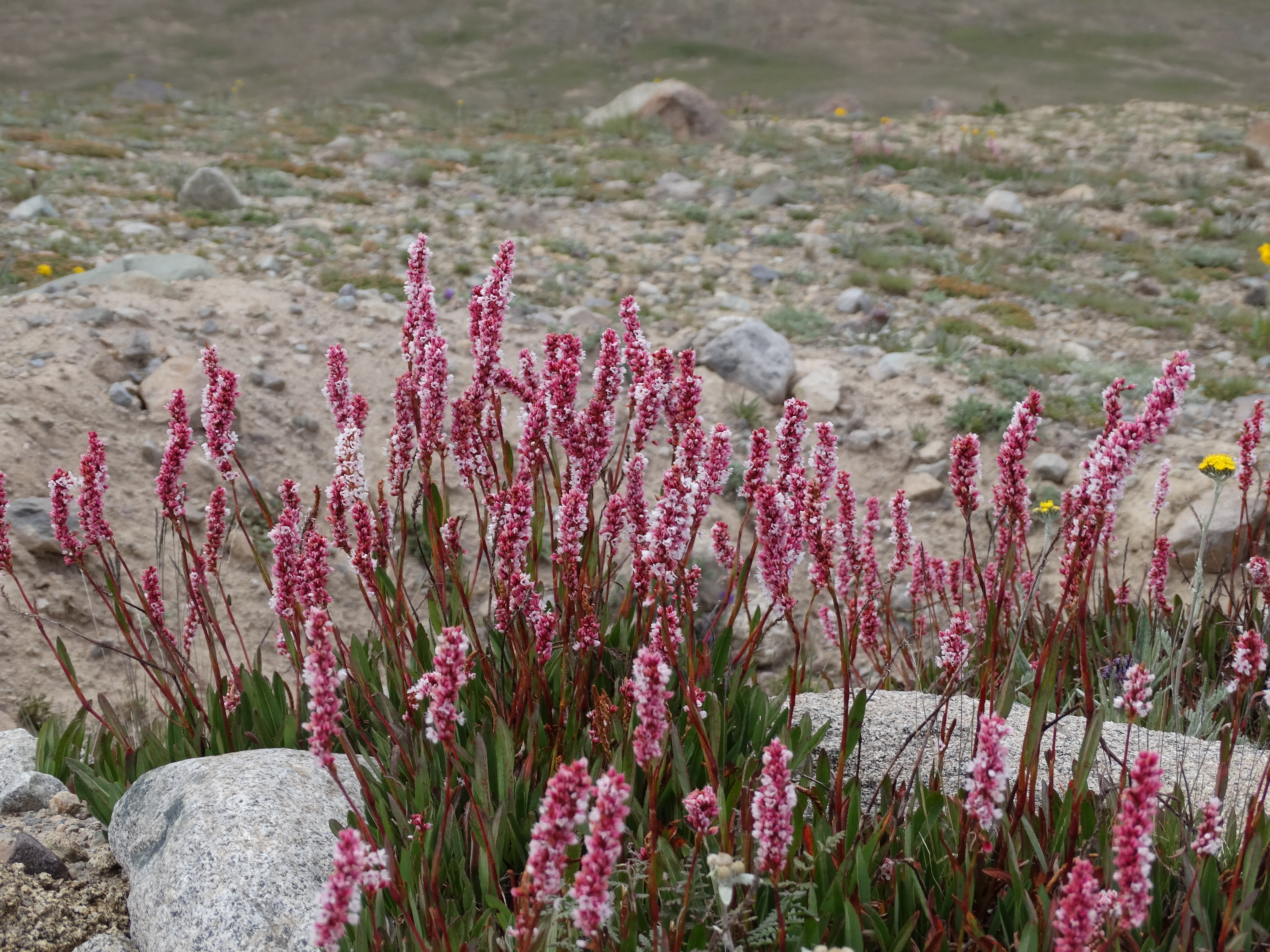 Wild flowers growing on Deosi Plains